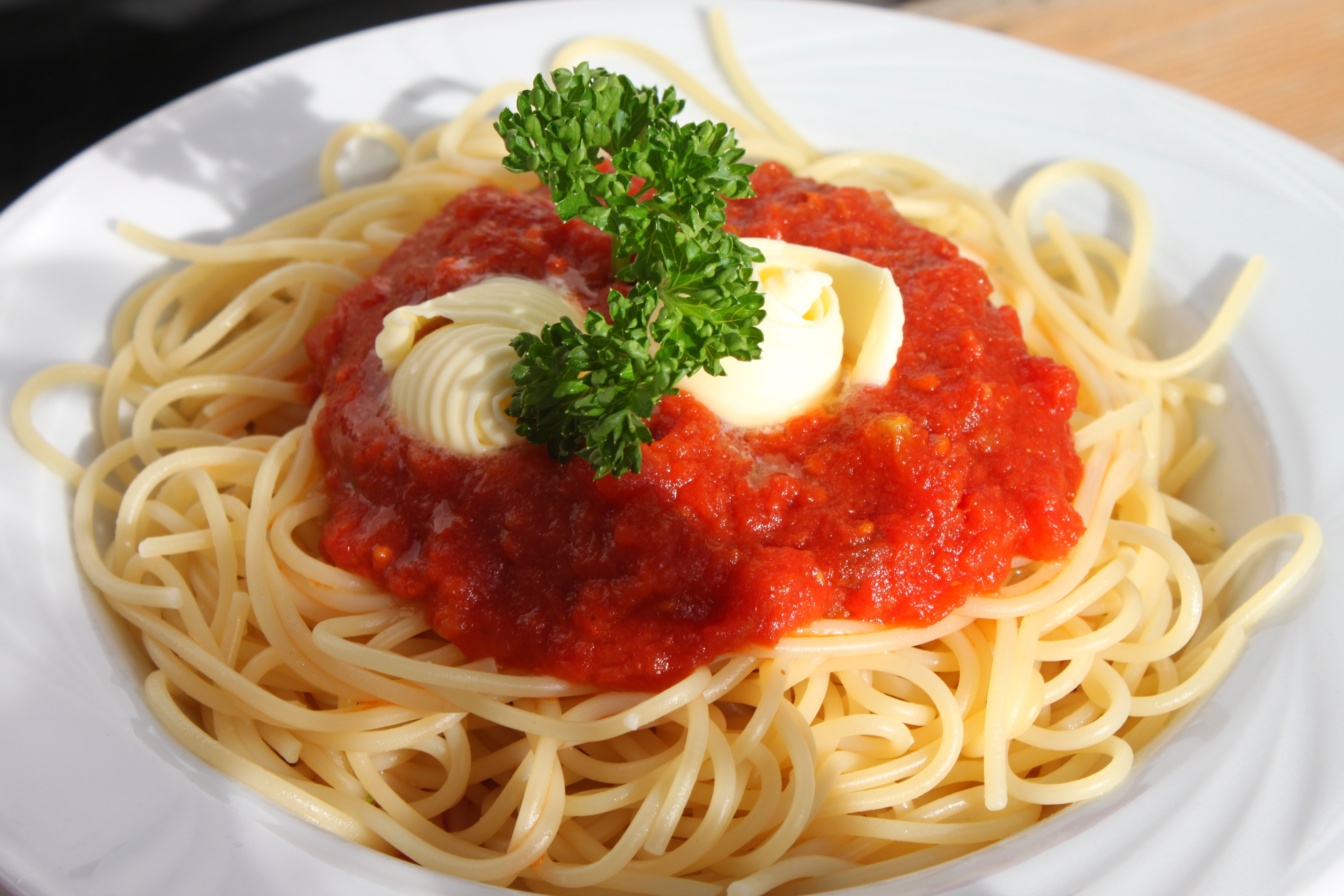 Spaghetti with tomato sauce. Photographed at the Huberalm in Antholz, South Tyrol, Italy.